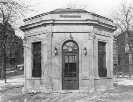 A public urinals building in Montreal (Quebec, Canada). Built during the mandate of mayor Camillien Houde, those buildings were sometimes nicknamed "camilliennes".